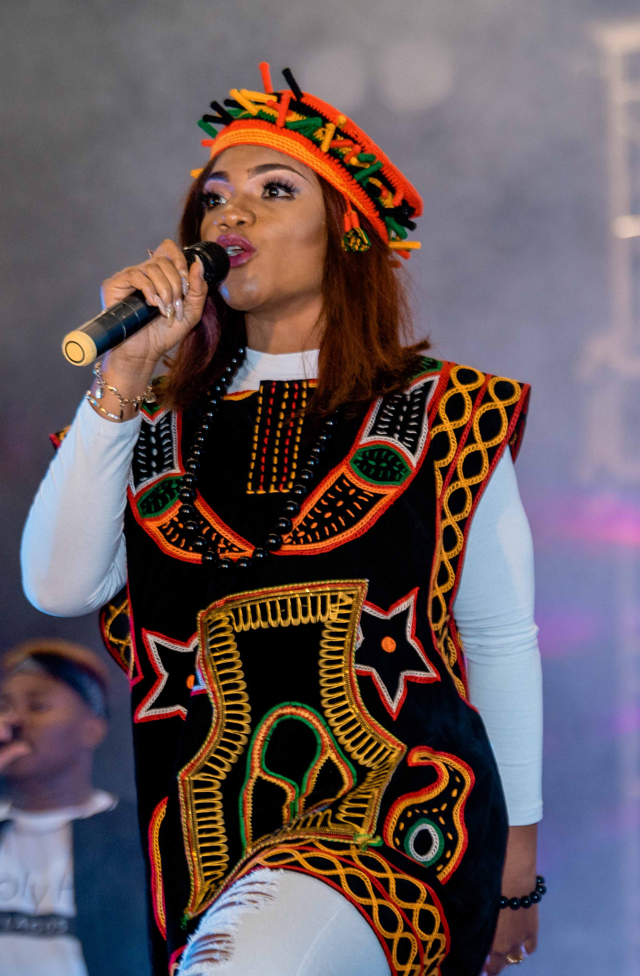 Ada Ehi in Cameroon, January 2020